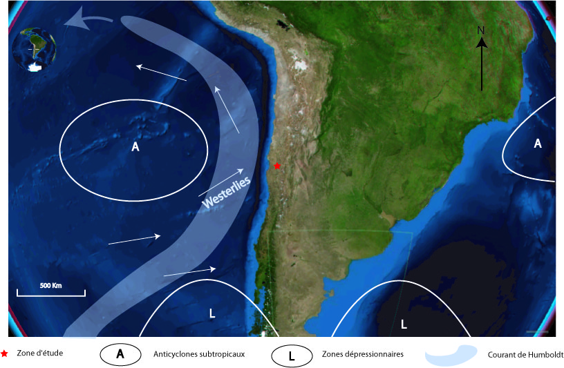 Schematic atmospheric circulation on South Pacific (Chile)